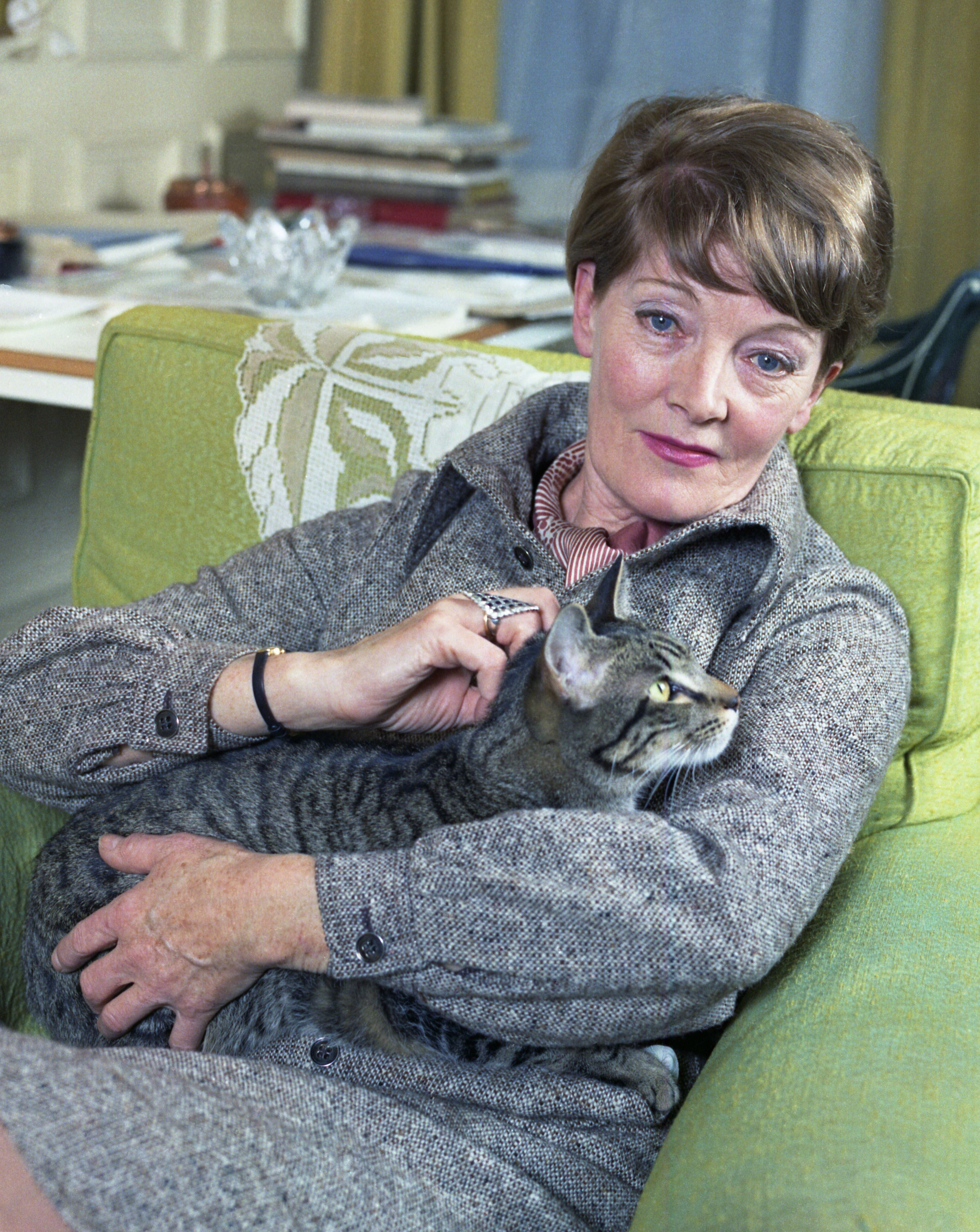 Rachel Kempson (Lady Redgrave) at home Belgravia London